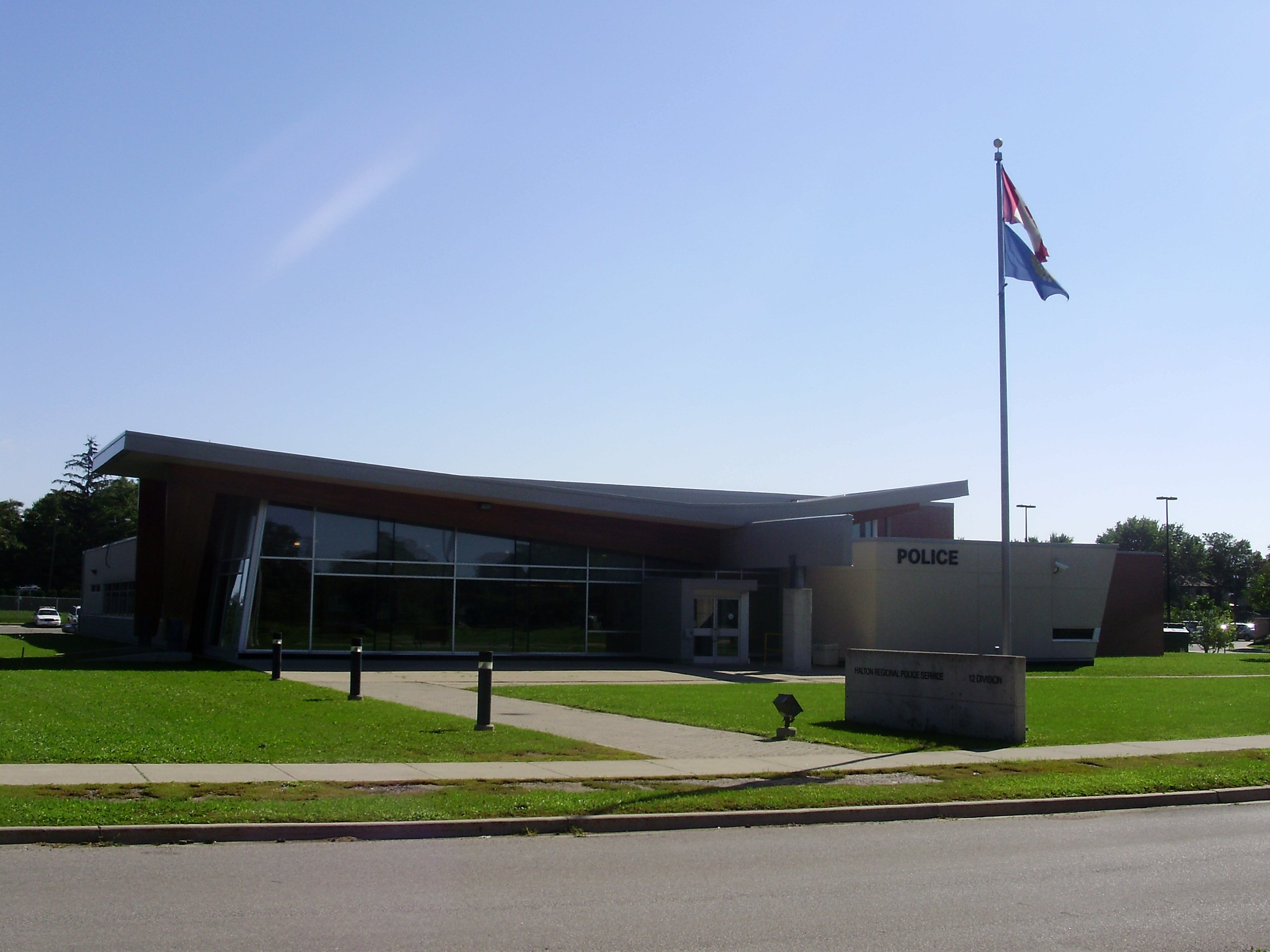 The offices of 12 Division of the Halton Regional Police Service in Milton, Ontario, Canada.